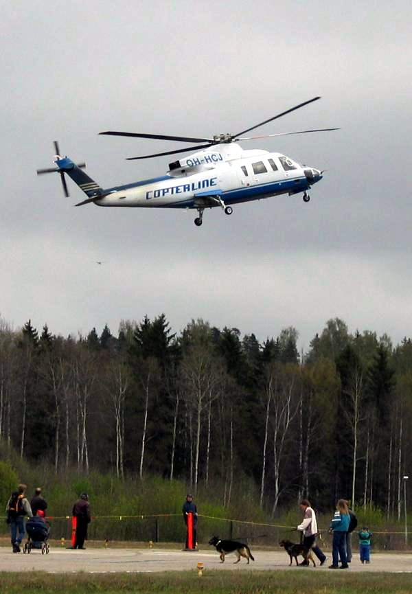 Copterline corporation's Sikorsky S-76 helicopter (OH-HCJ) taking off at Helsinki-Malmi Airport